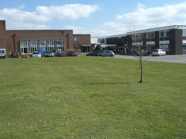 The Forest School